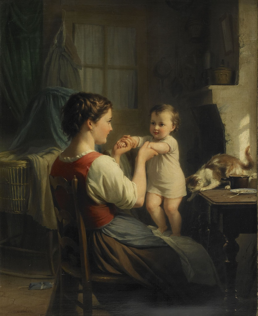 Painting by Fritz Zuber-Bühler